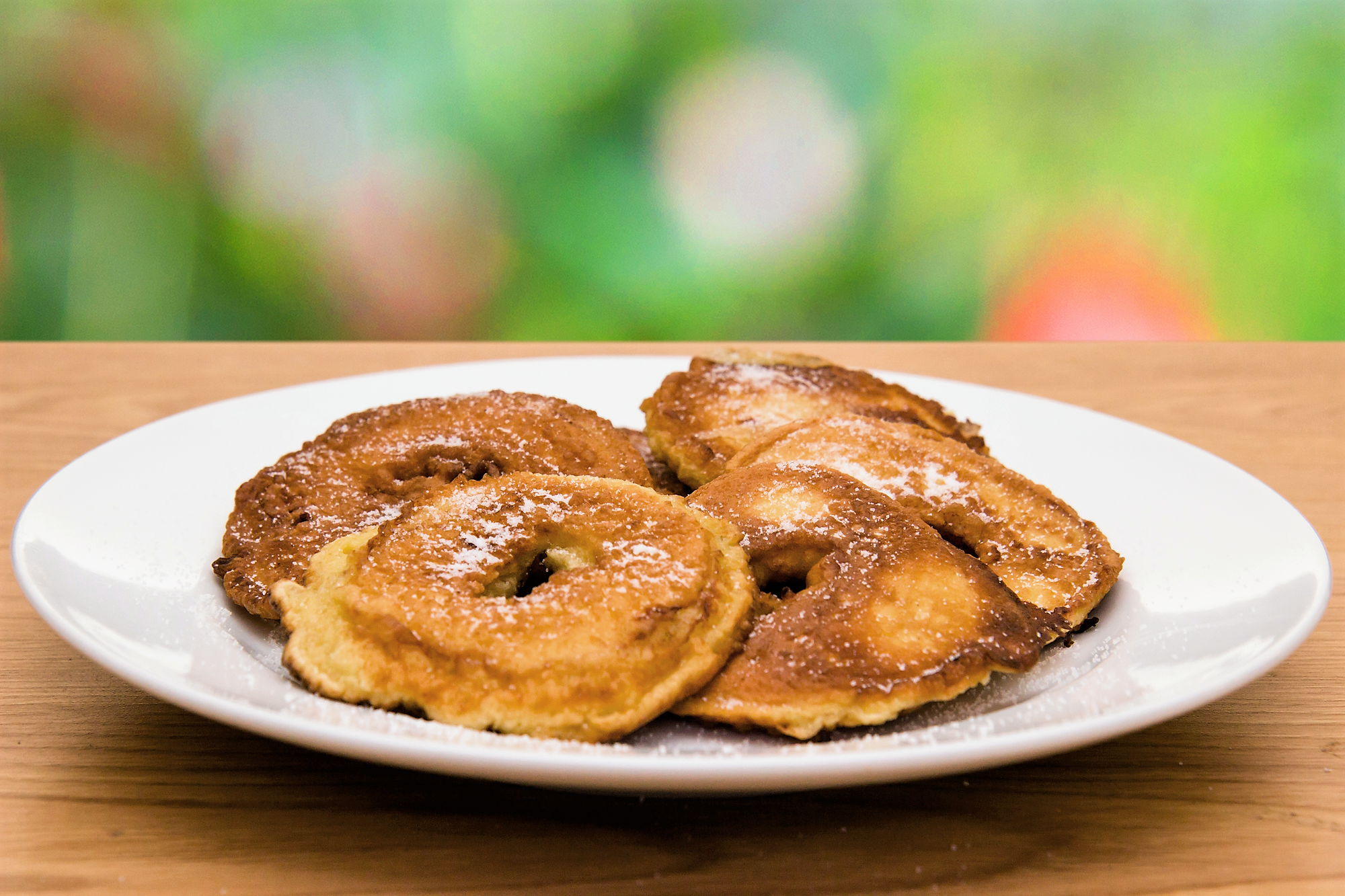 Fresh Apfelküchle with sugar on a plate.